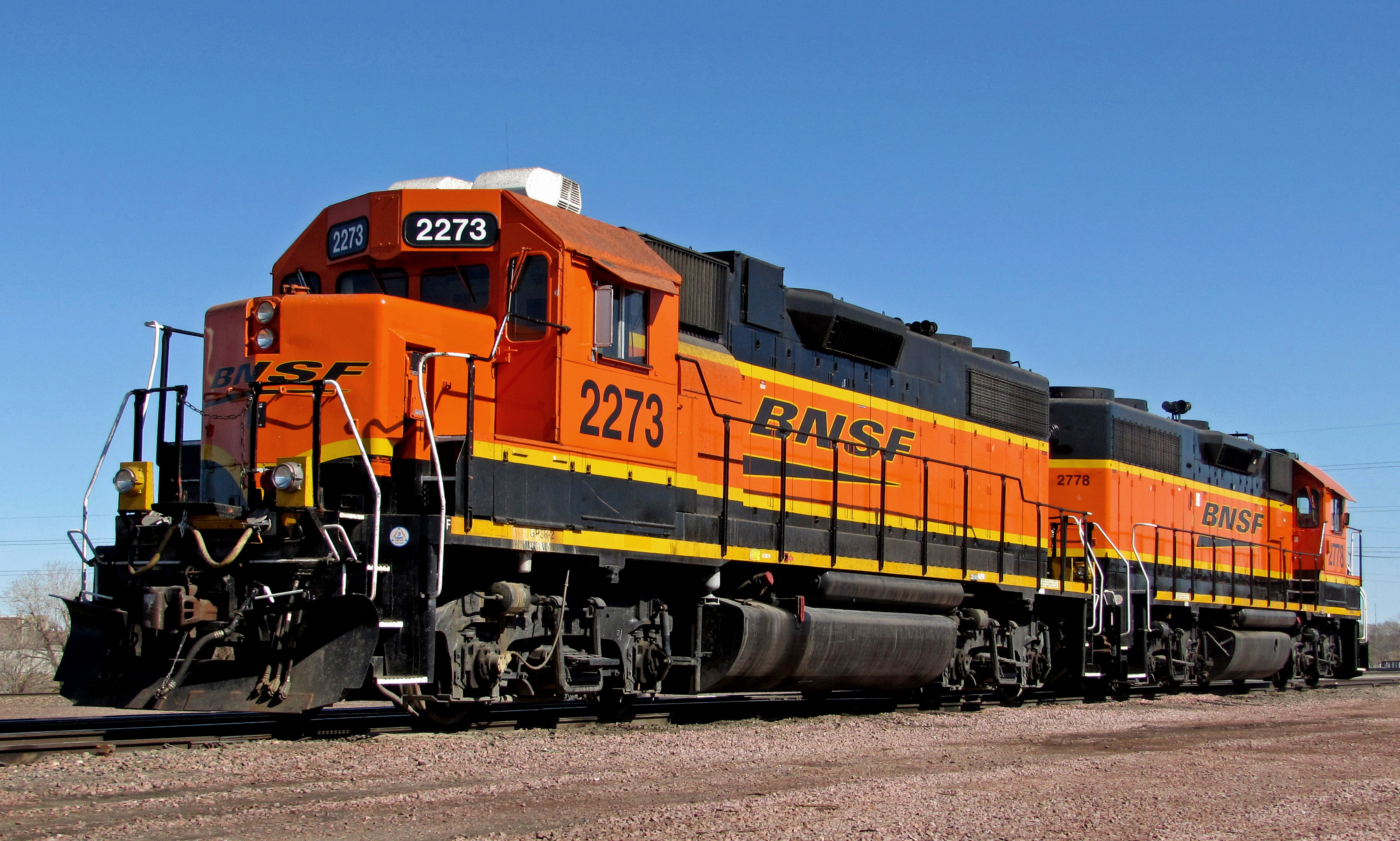 BNSF Railway GP38-2 no. 2273 at Lincoln, Nebraska, in 2014.